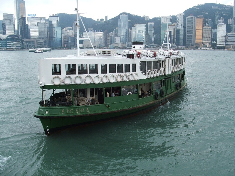 Two famous images of Hong Kong, the Star Ferry and the skyline of Hong Kong Island